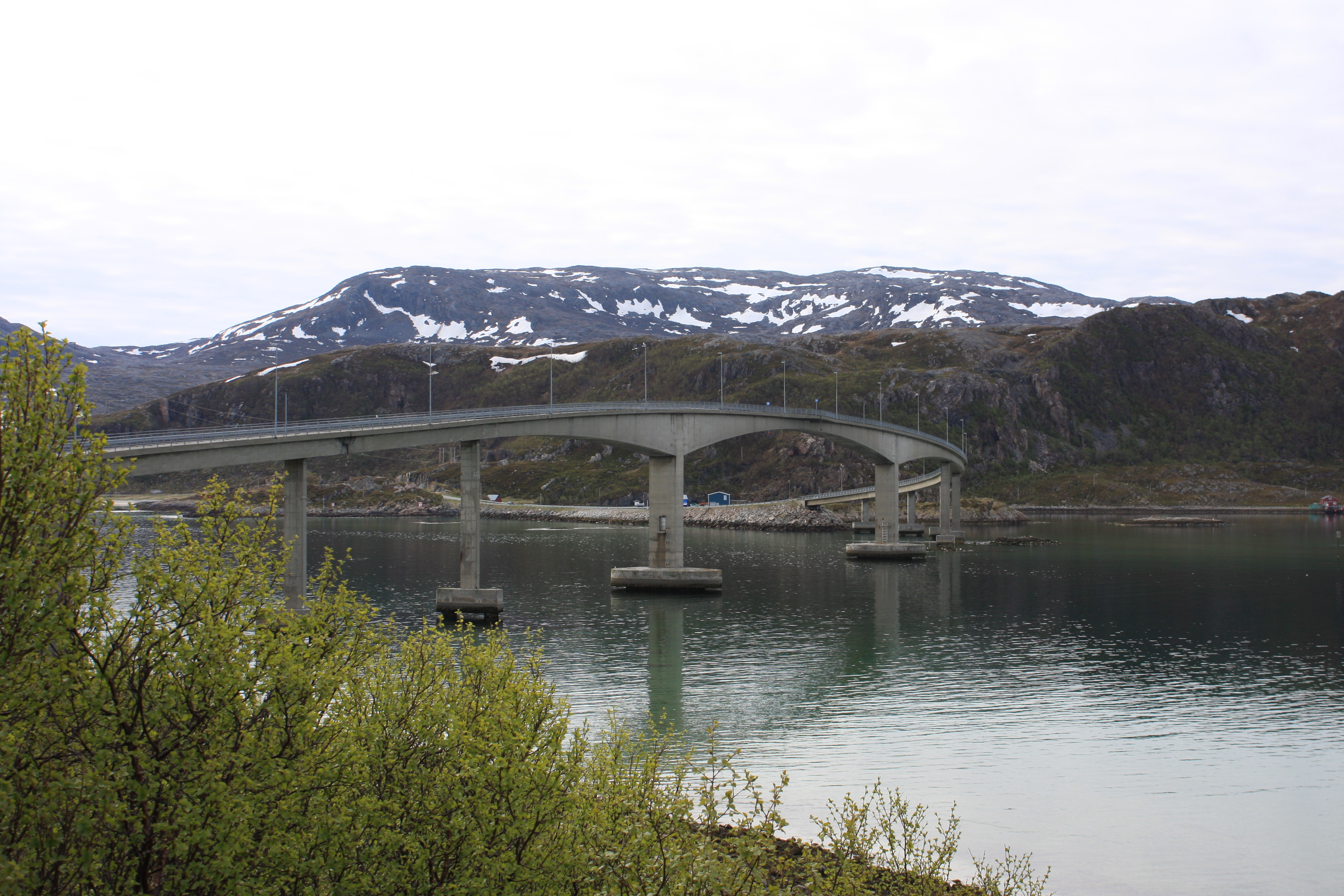 The bridge to Sommarøya in Tromsø kommune, Norway. Picture is taken facing southeast.